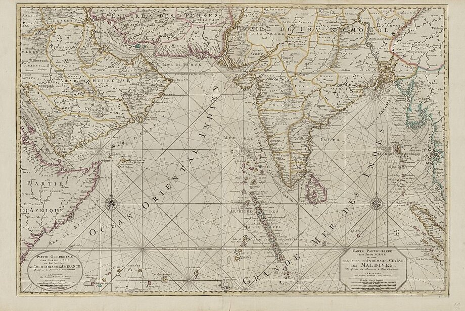 This detail from an 18th-century map by Pierre Mortier of The Netherlands names several dozen of the Maldive Islands off the southwestern coast of India. Map title: Carte particuliere d'une partie d'Asie ou sont les Isles d'Andemaon, Ceylan, les Maldives: dressé sur les memoires le plus nouveaux.